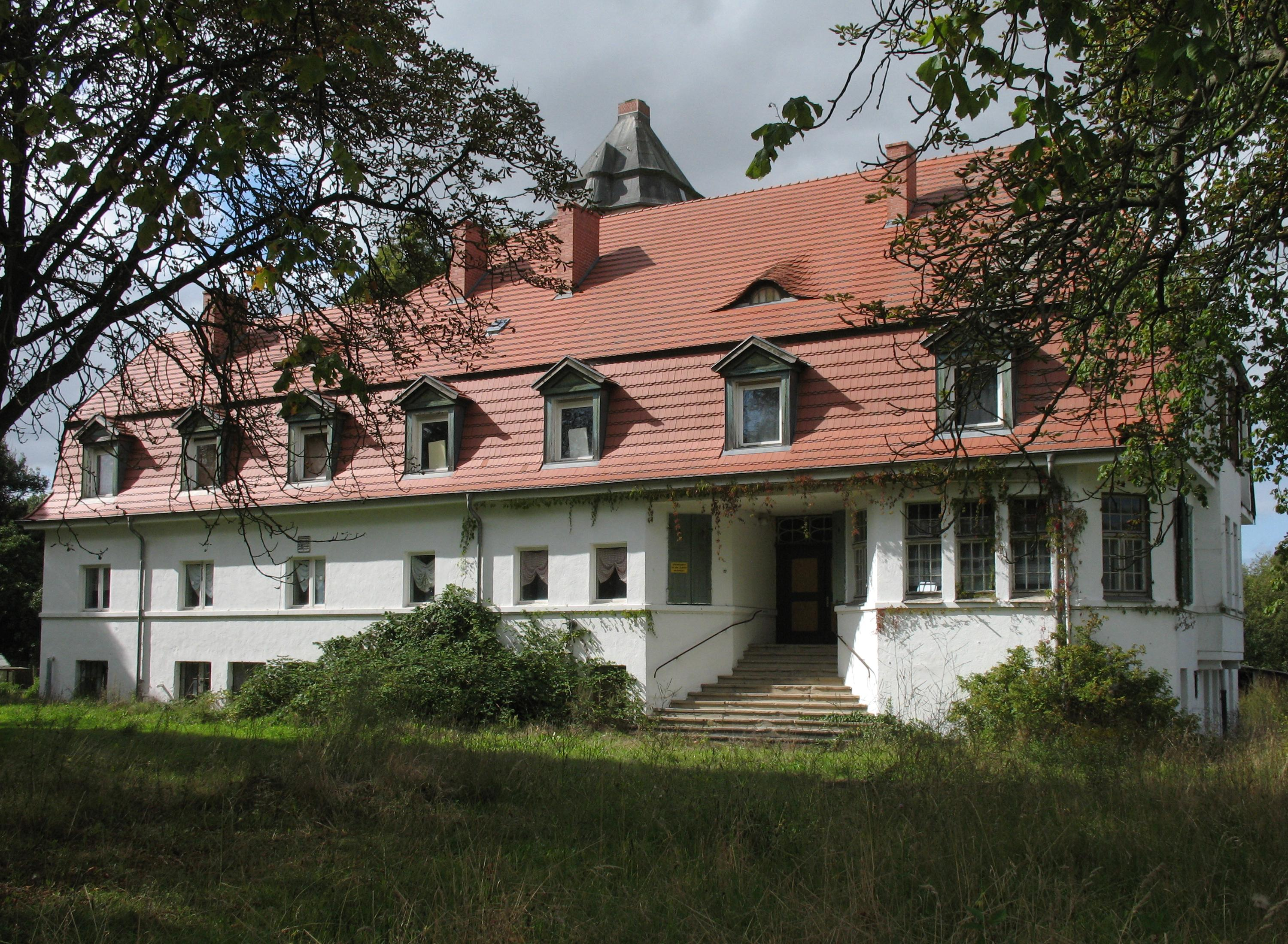 Manor house in Zehna in Mecklenburg-Western Pomerania, Germany